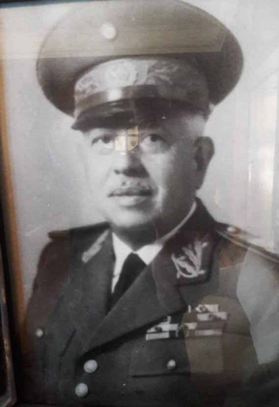 Marshall Estevão Leitão de Carvalho, Brazilian Army.